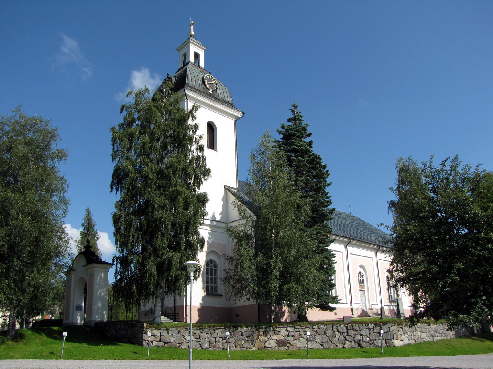 Arnäs kyrka in Arnäs, Sweden